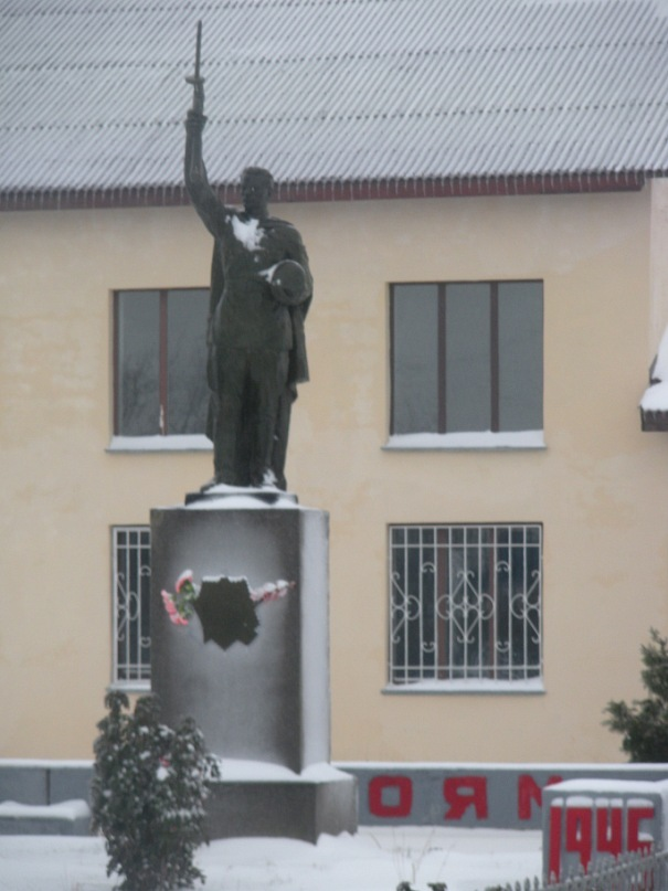 monument to the heroes of the Great Patriotic War 1941-1945